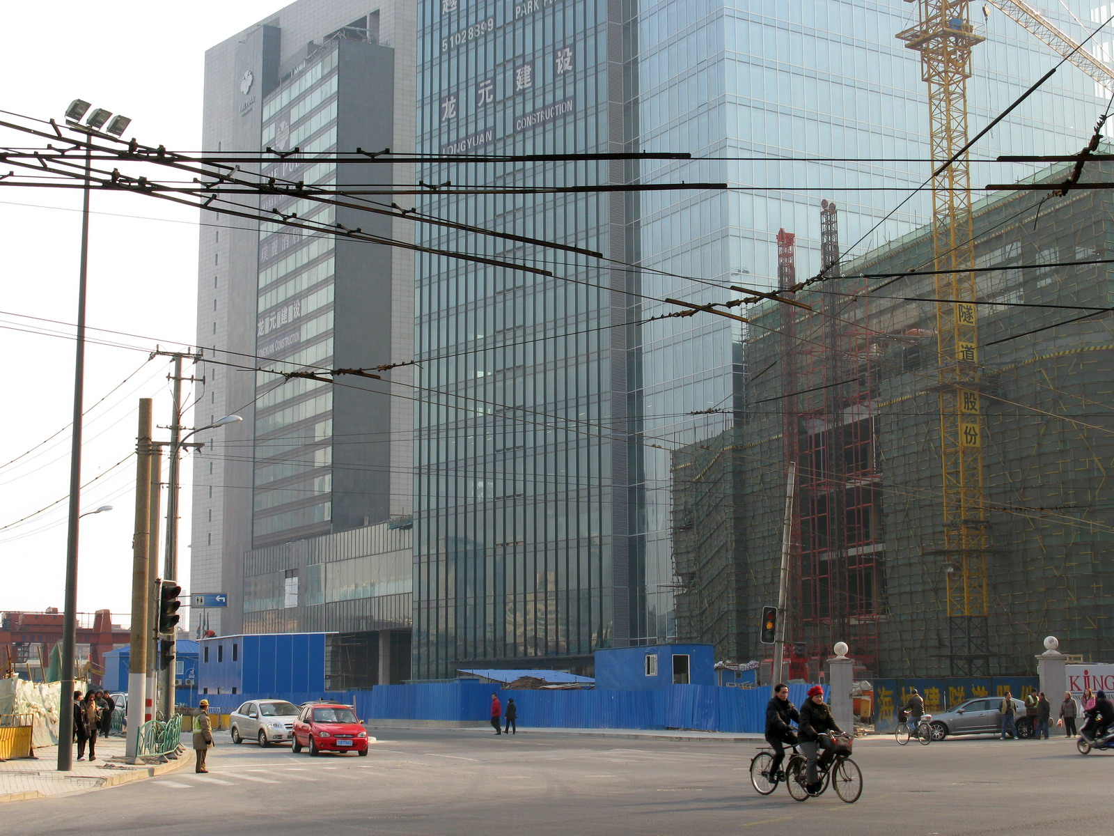 Construction site of Line 7 Jing'an Temple Station